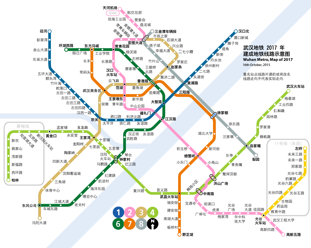 Wuhan Metro Map of 2017 in Chinese